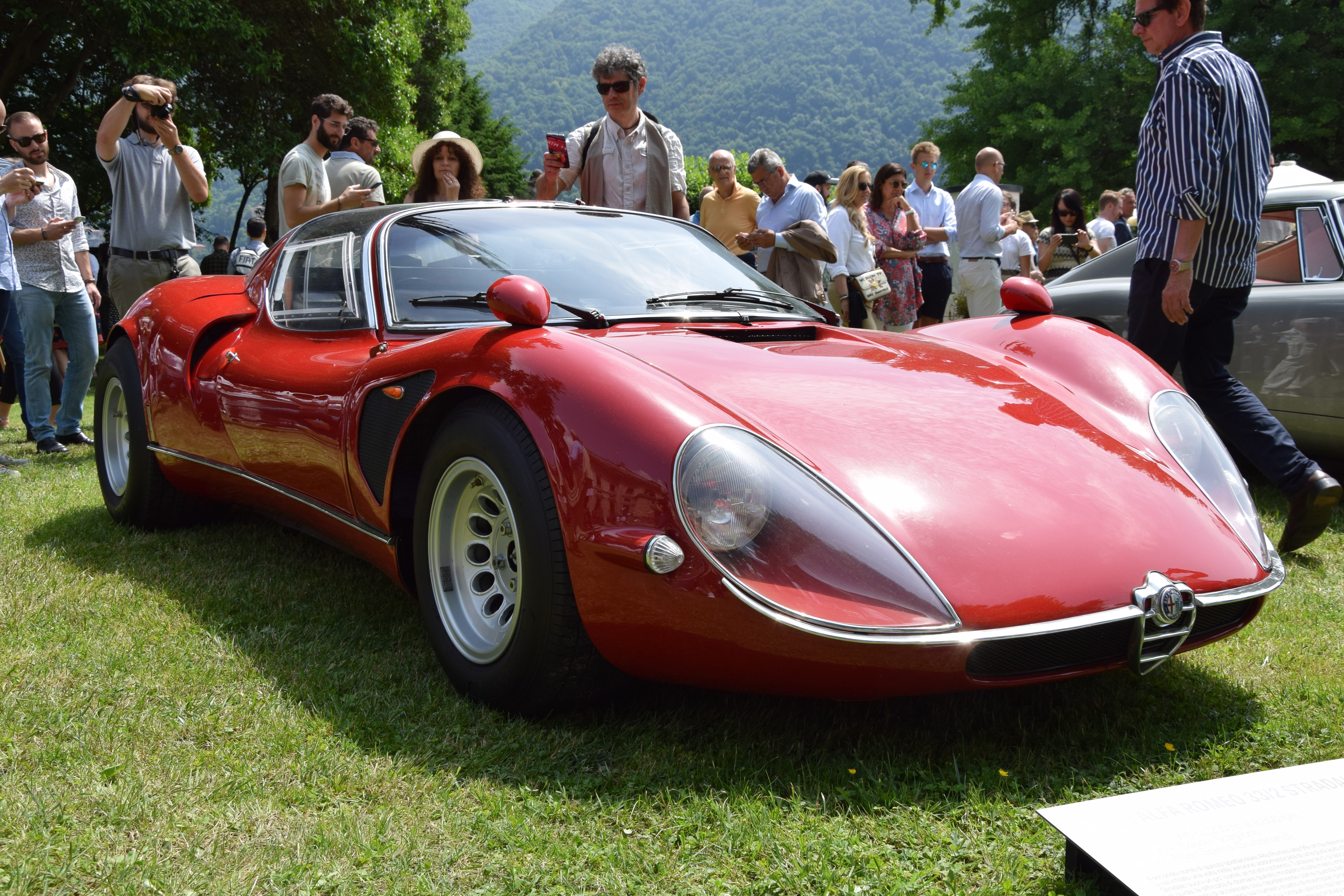 Frontal view of the Alfa-Romeo 33-2 Stradale Scaglione Coupé, as seen in the 2018 Concorso d'Eleganza Villa d'Este.